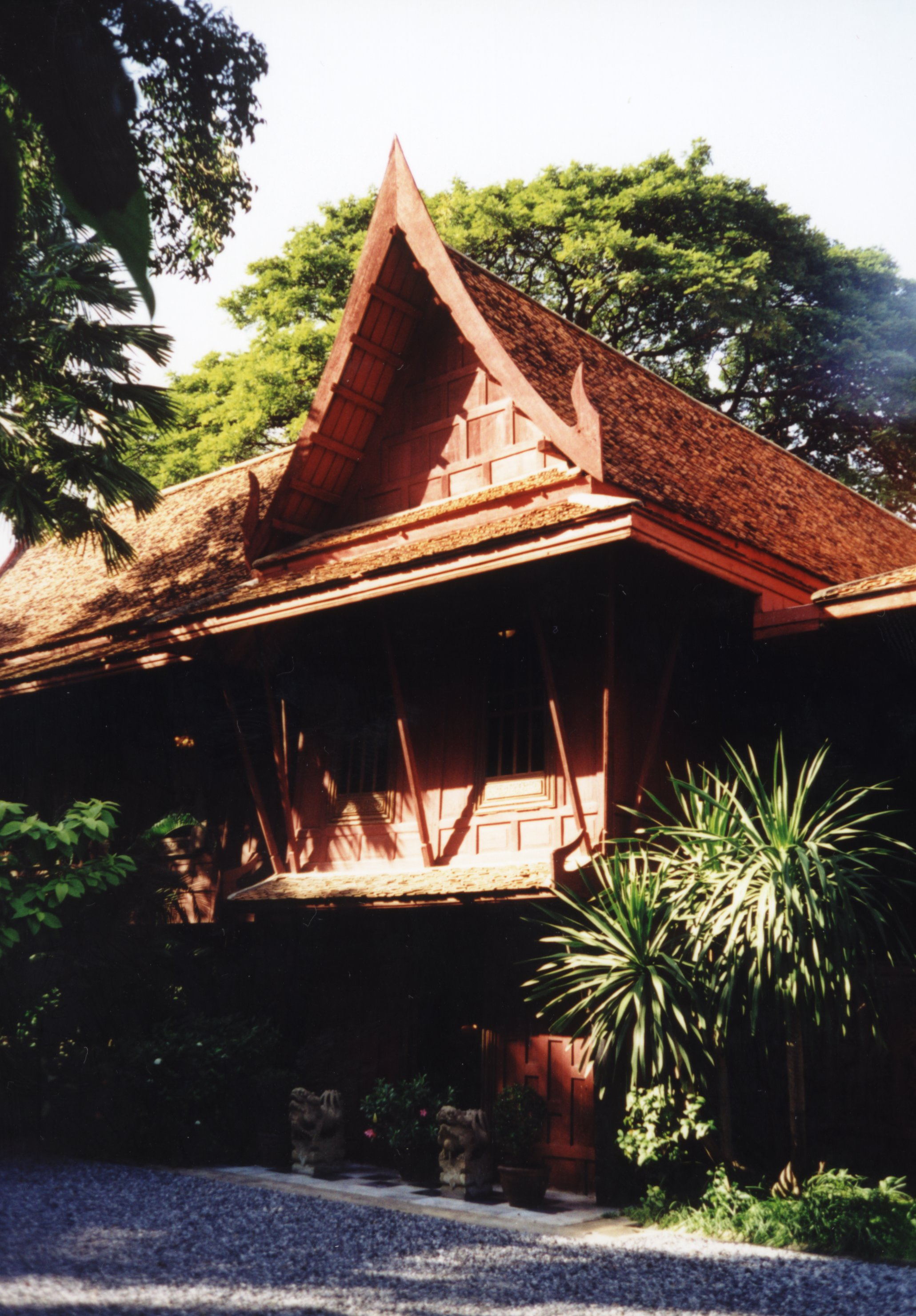 Jim Thompson museum in Bangkok, Thailand. The collection of traditional Thai houses filled with Thai art collected by Jim Thompson is one of the touristical attraction of Bangkok. Photo taken by User:Ahoerstemeier on November 2 2000.